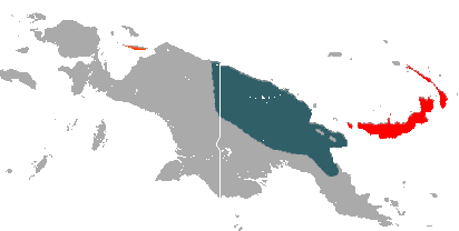 Brown's Pademelon (Thylogale browni) range (blue — native, red — introduced, orange — possibly extinct)